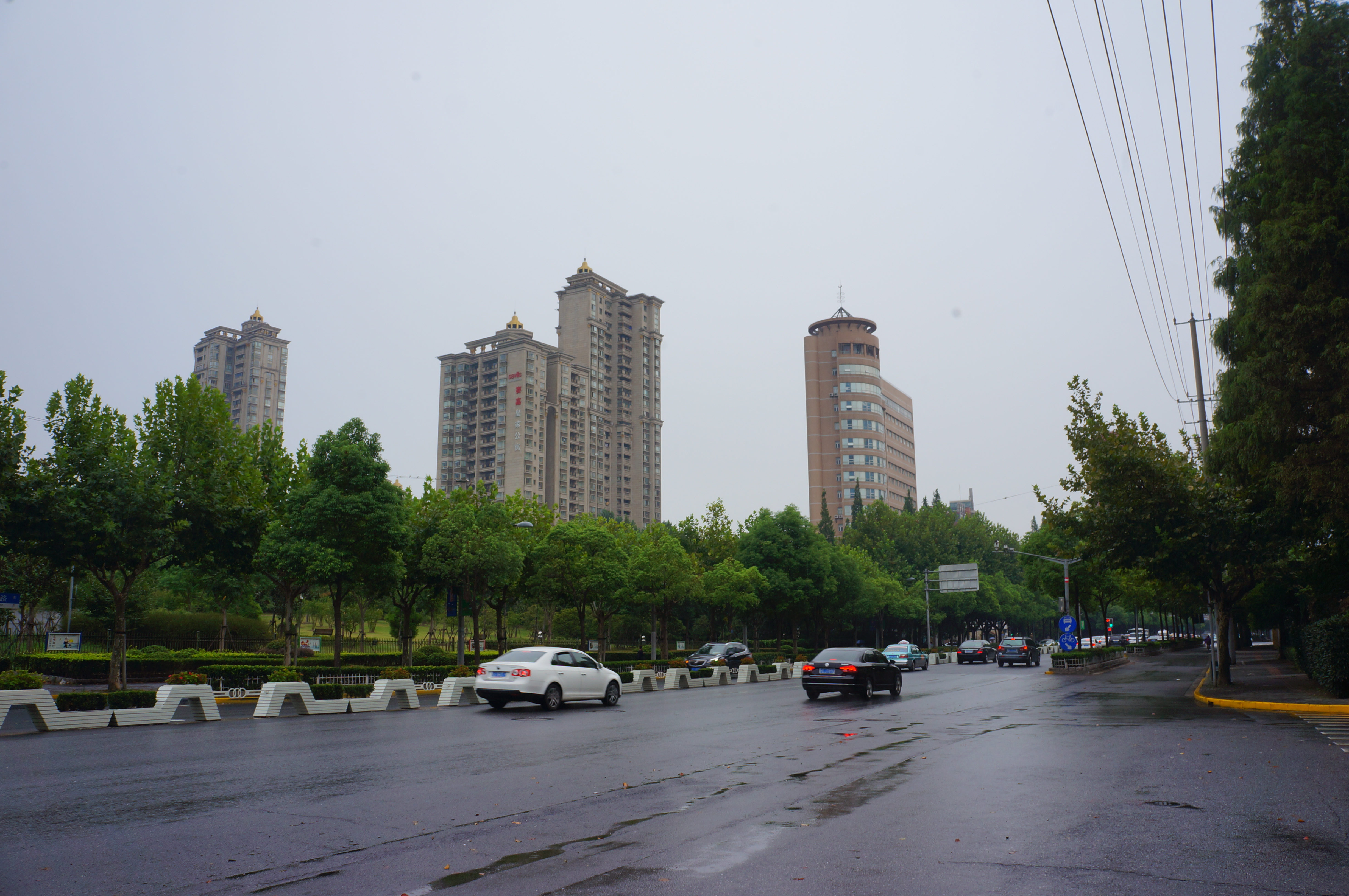 201609 Hongqiao Road in Gubei